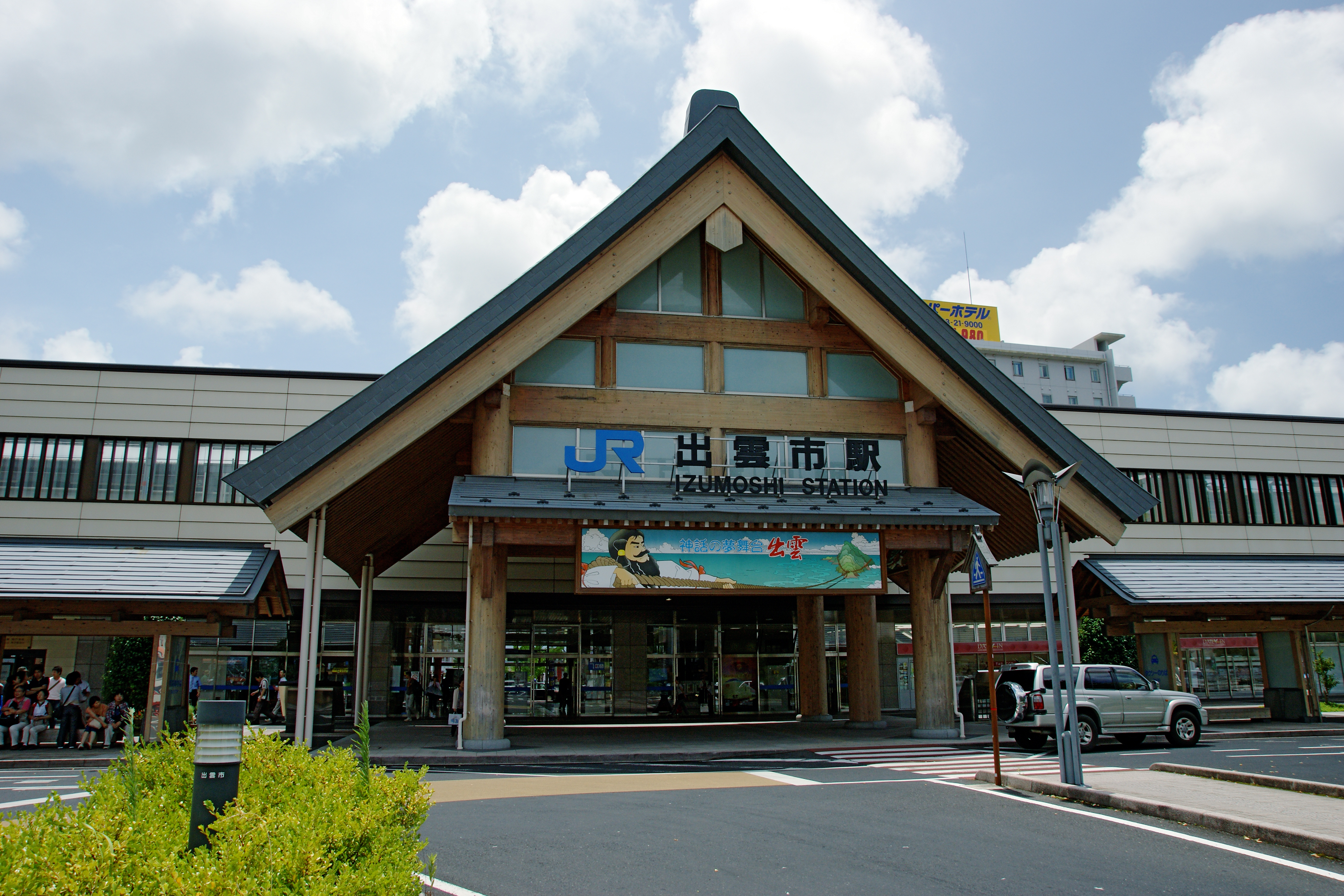 Izumoshi Station in Izumo, Shimane prefecture, Japan